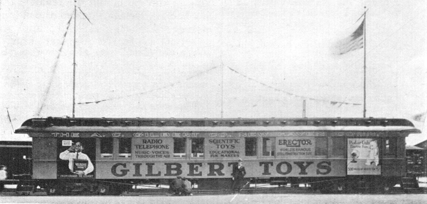 Railroad "Dealers demonstration car" used by the A. C. Gilbert toy company of New Haven, Connecticut. Original caption: "Painted bright yellow and red, with a green roof, this car is designed to get the interest of the boy who is the prospect for Gilbert toys."